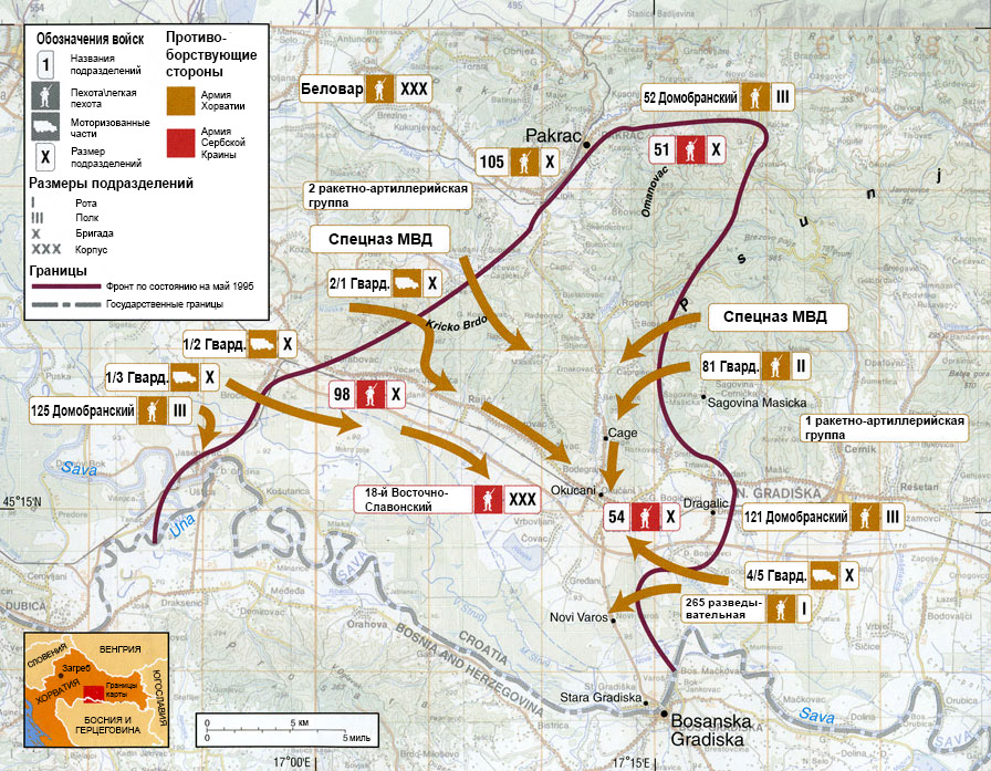 Balkan War/Croatia War/Map of Operation Flash (Bljesak)